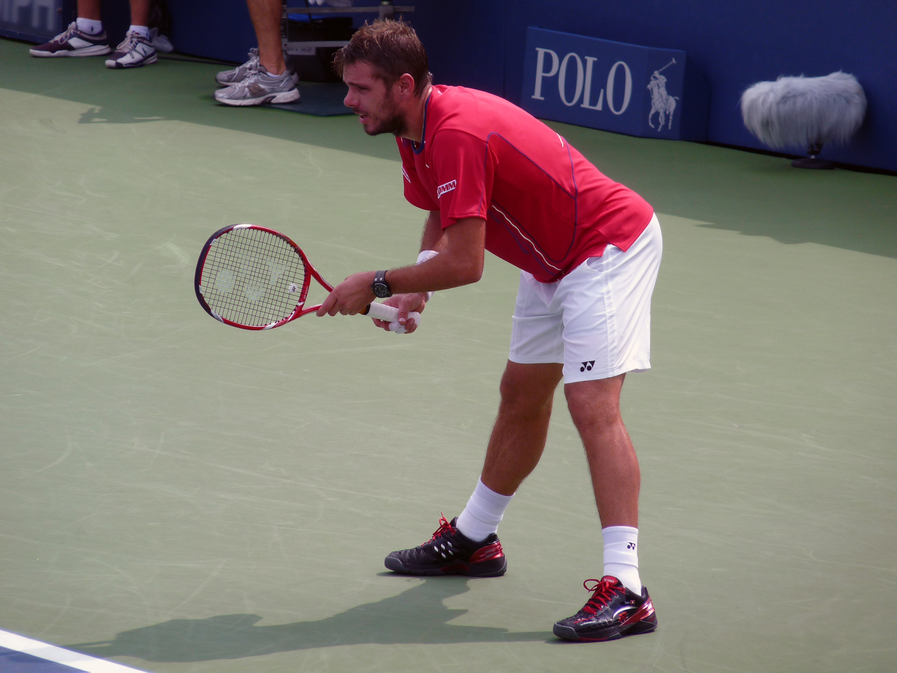 US Open 2013 – Men's Singles 3rd Round (Louis Armstrong Stadium) – Stanislas Wawrinka [9] vs. Cyprus Marcos Baghdatis: 6–3, 6–2, 61–7, 7–67